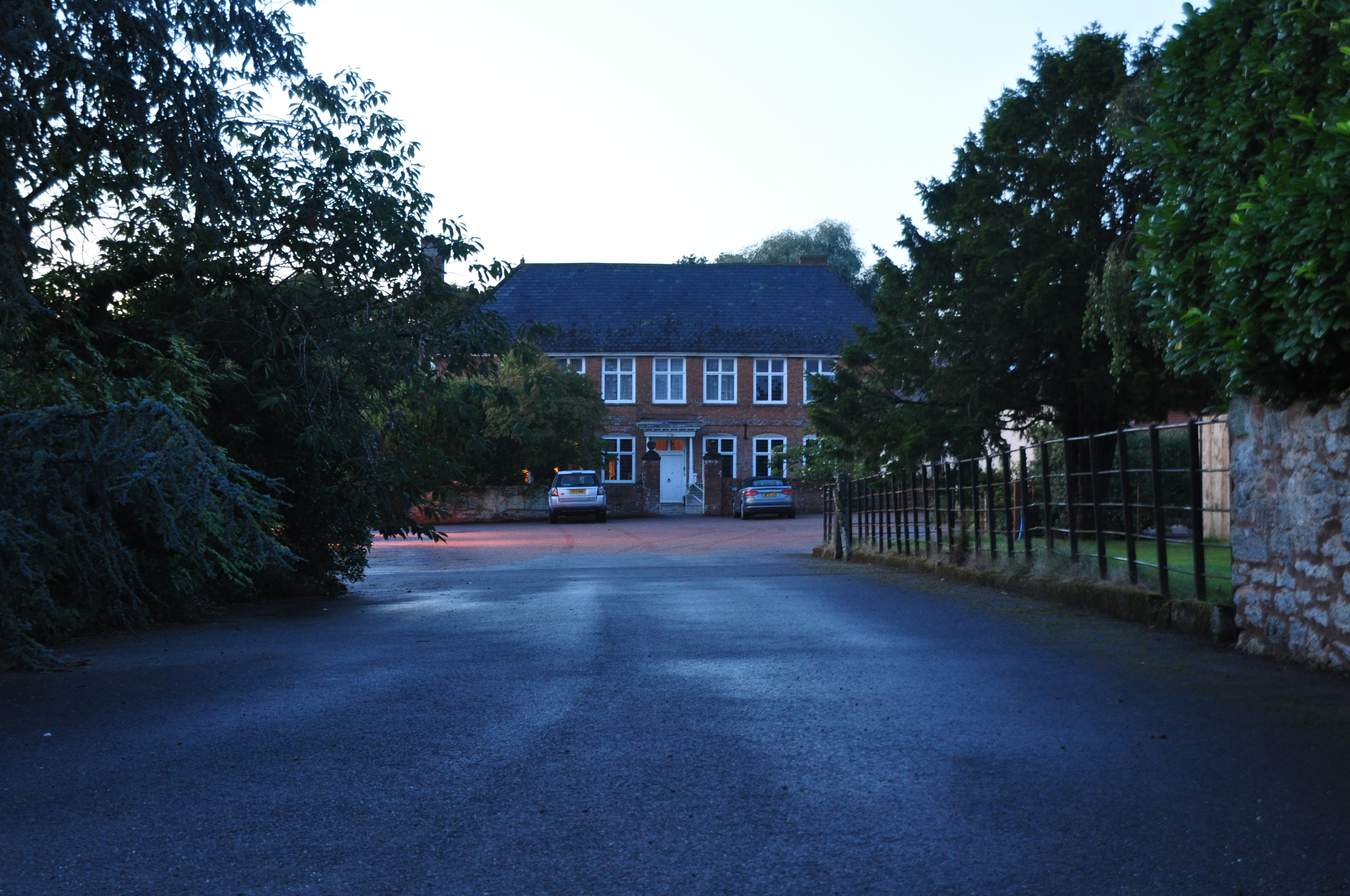 Fordmore Farm in the parish of Plymtree, Devon, Anciently "Ford's Moore", seat of the Ford family, anciently "at Ford", as recorded in 1161. The Ford family remained at Ford's Moore until after 1576. (Vivian, Lt.Col. J.L., (Ed.) The Visitations of the County of Devon: Comprising the Heralds' Visitations of 1531, 1564 & 1620, Exeter, 1895, p.347, pedigree of "Ford of Ford")